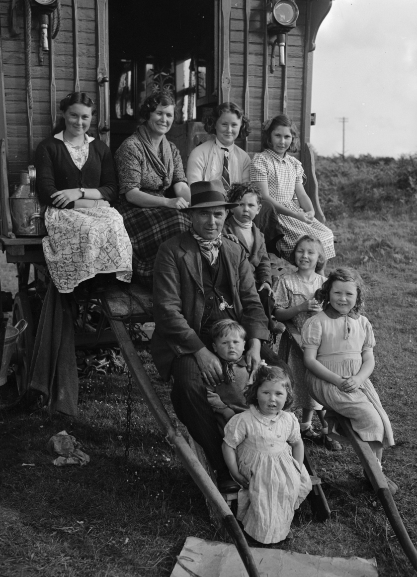 Teitl Cymraeg/Welsh title: Teulu o sipsiwn Ffotograffydd/Photographer: Geoff Charles (1909-2002) Nodyn/Note: Imagesof a Gypsy family, Douglas and Elizabeth Hern and their eight children, who had been living in a [house] for six years and who were back in their caravans to travel from Bala to Swansea. Dyddiad/Date: June 22, 1951 Cyfrwng/Medium: Negydd ffilm / Film negative Cyfeiriad/Reference: (gch01948) Rhif cofnod / Record no.: 3368242 Rhagor o wybodaeth am gasgliad Geoff Charles yn Llyfrgell Genedlaethol Cymru More information about the Geoff Charles Collection at the National Library of Wales